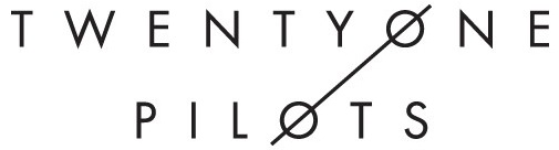 Twenty One Pilots logo